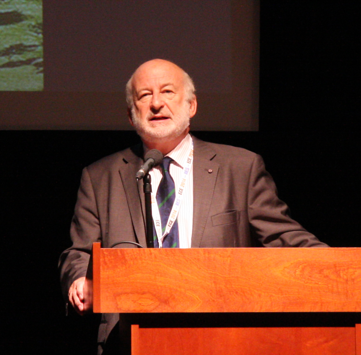 British chemist John A. Pickett as a keynote lecturer at the Xth European Congress of Entomology, York